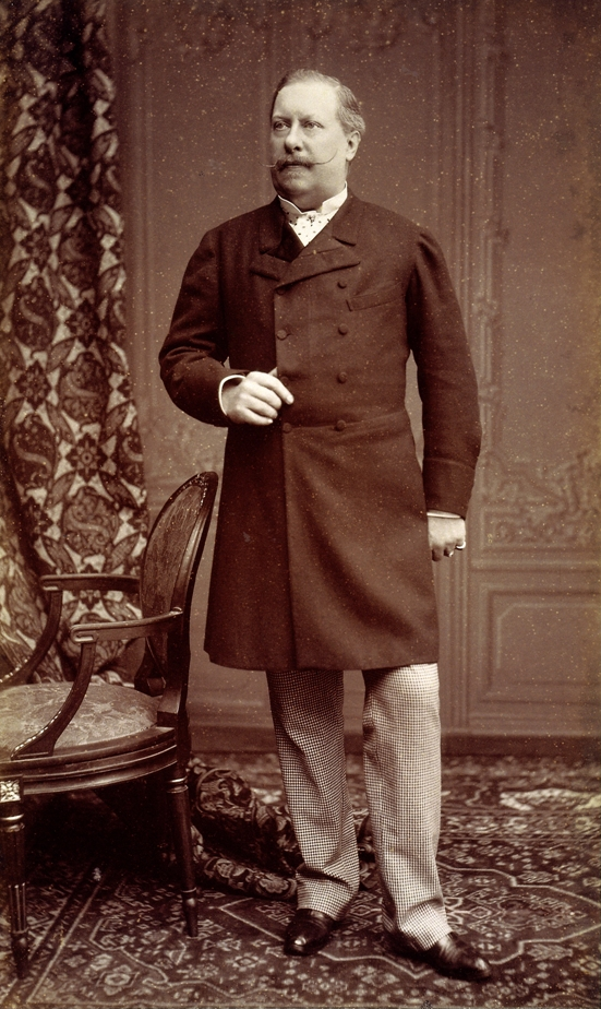 King Louis I of Portugal, in 1885.